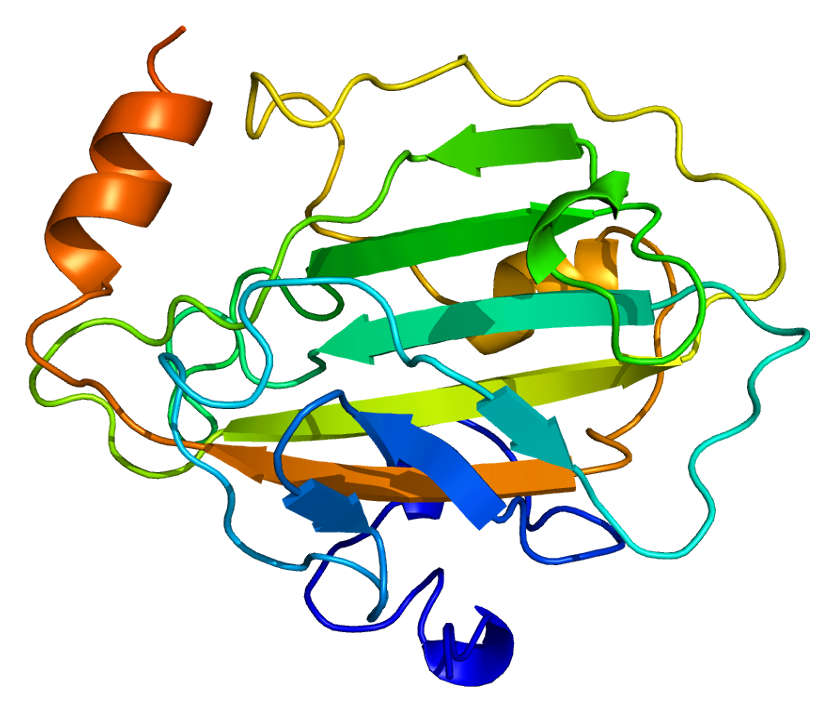 Structure of the PEBP1 protein. Based on PyMOL rendering of PDB 1a44.